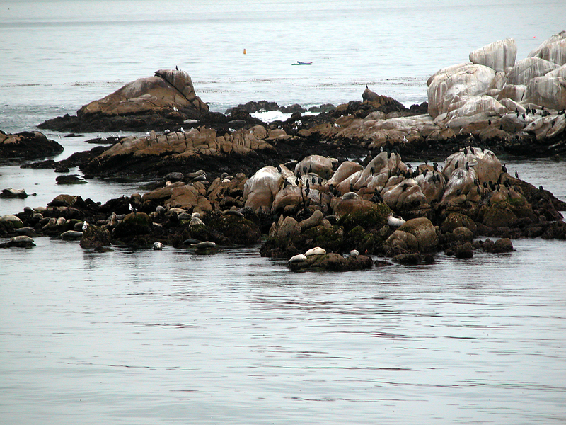 Picture of phoca vitulina (harbor seal) taken at Point Lobos, California